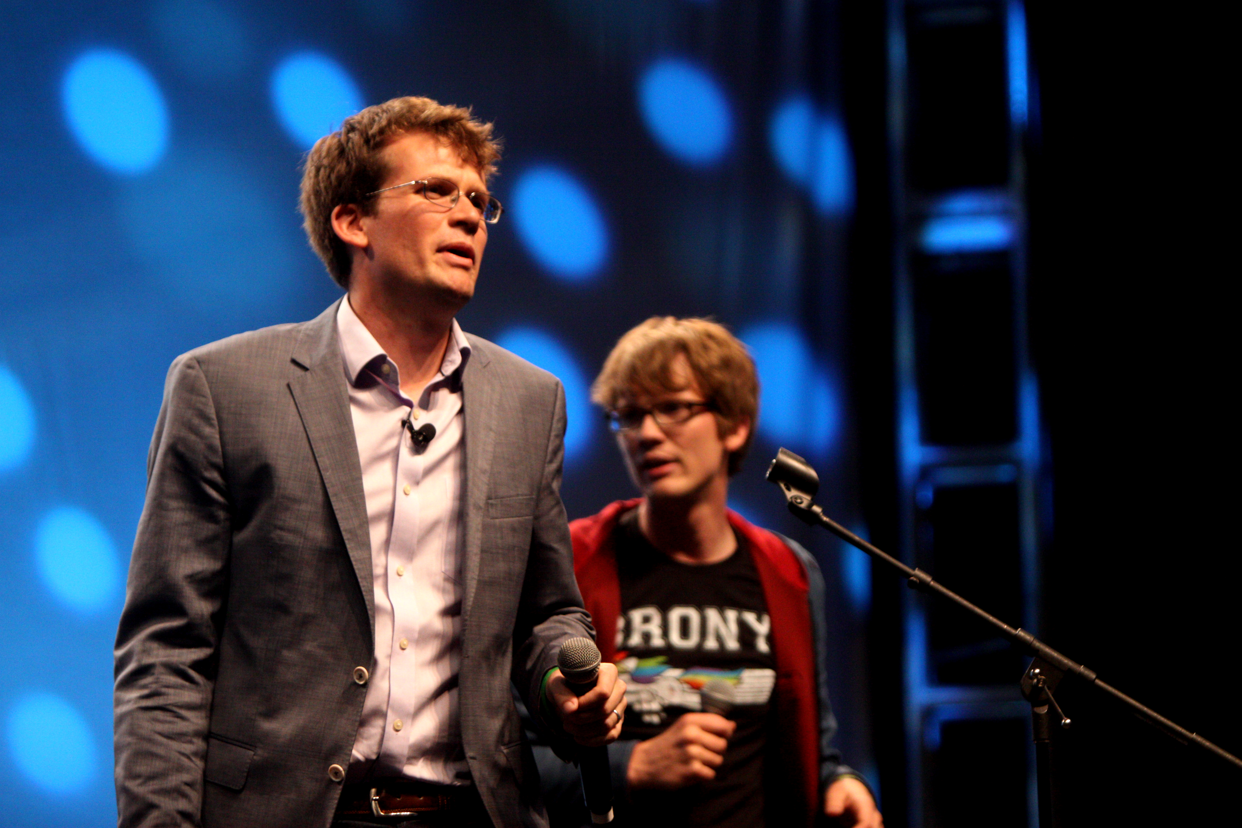 Hank & John Green speaking at VidCon 2012 at the Anaheim Convention Center in Anaheim, California.